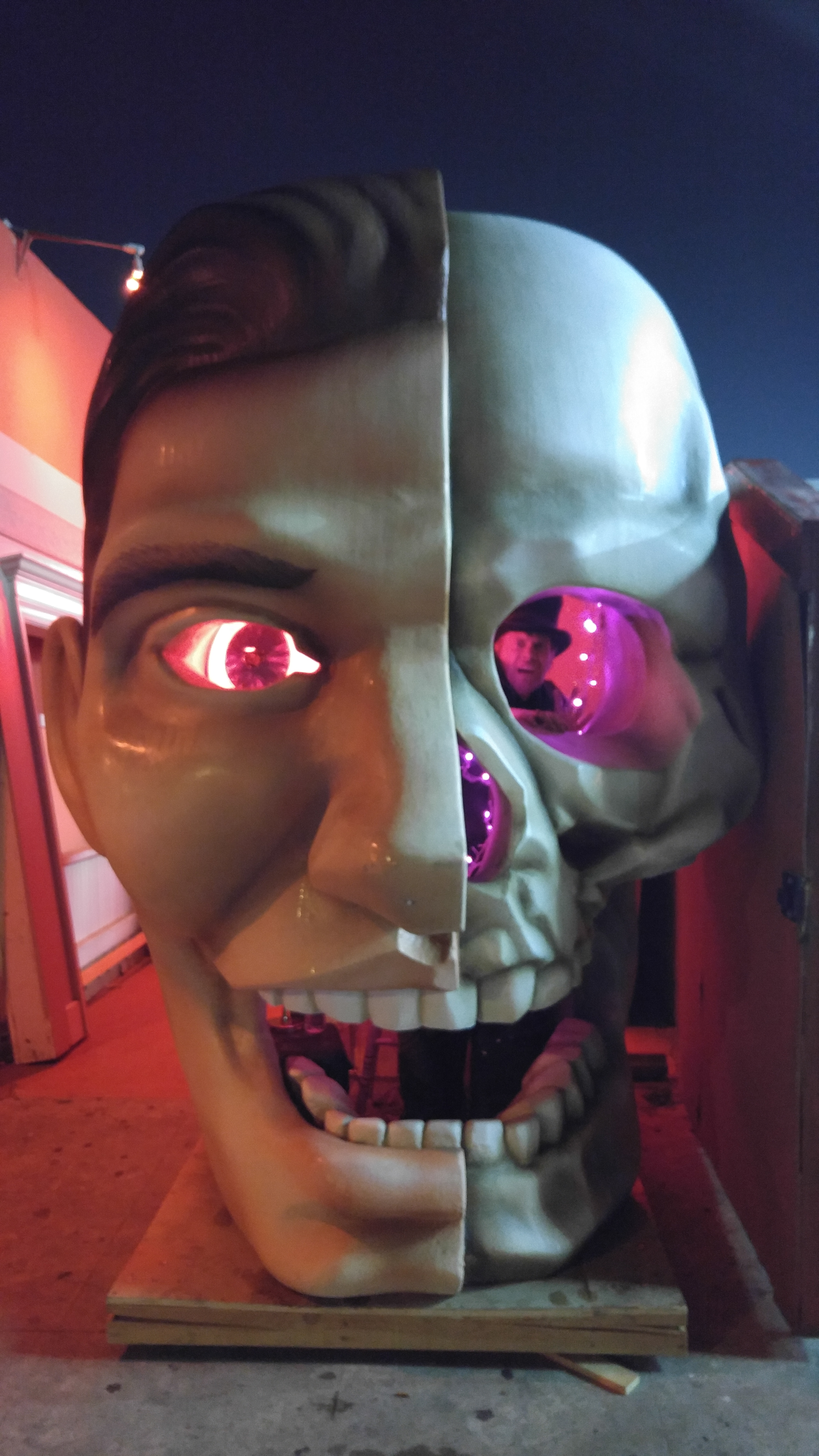 The ticket booth for the North Hollywood nightclub the California Institute of Abnormal Arts, featuring owner Carl Crew.